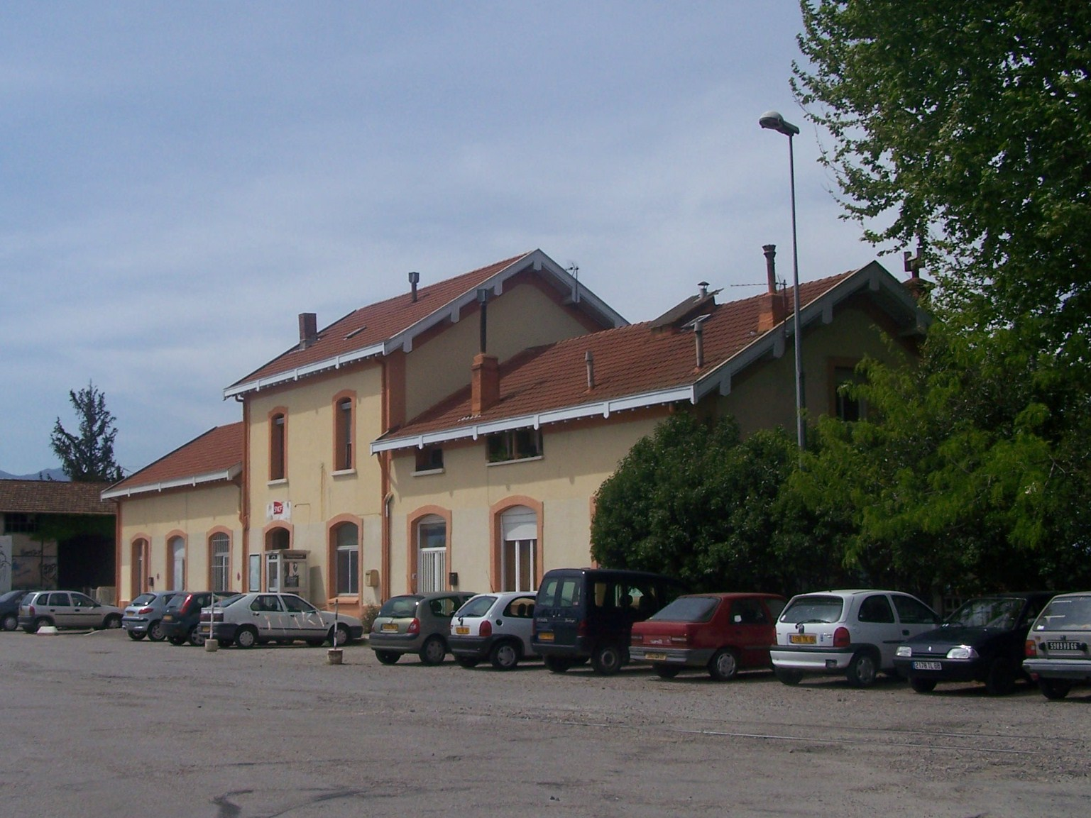 City of Elne railway station, in the French department of Pyrénées-Orientales.